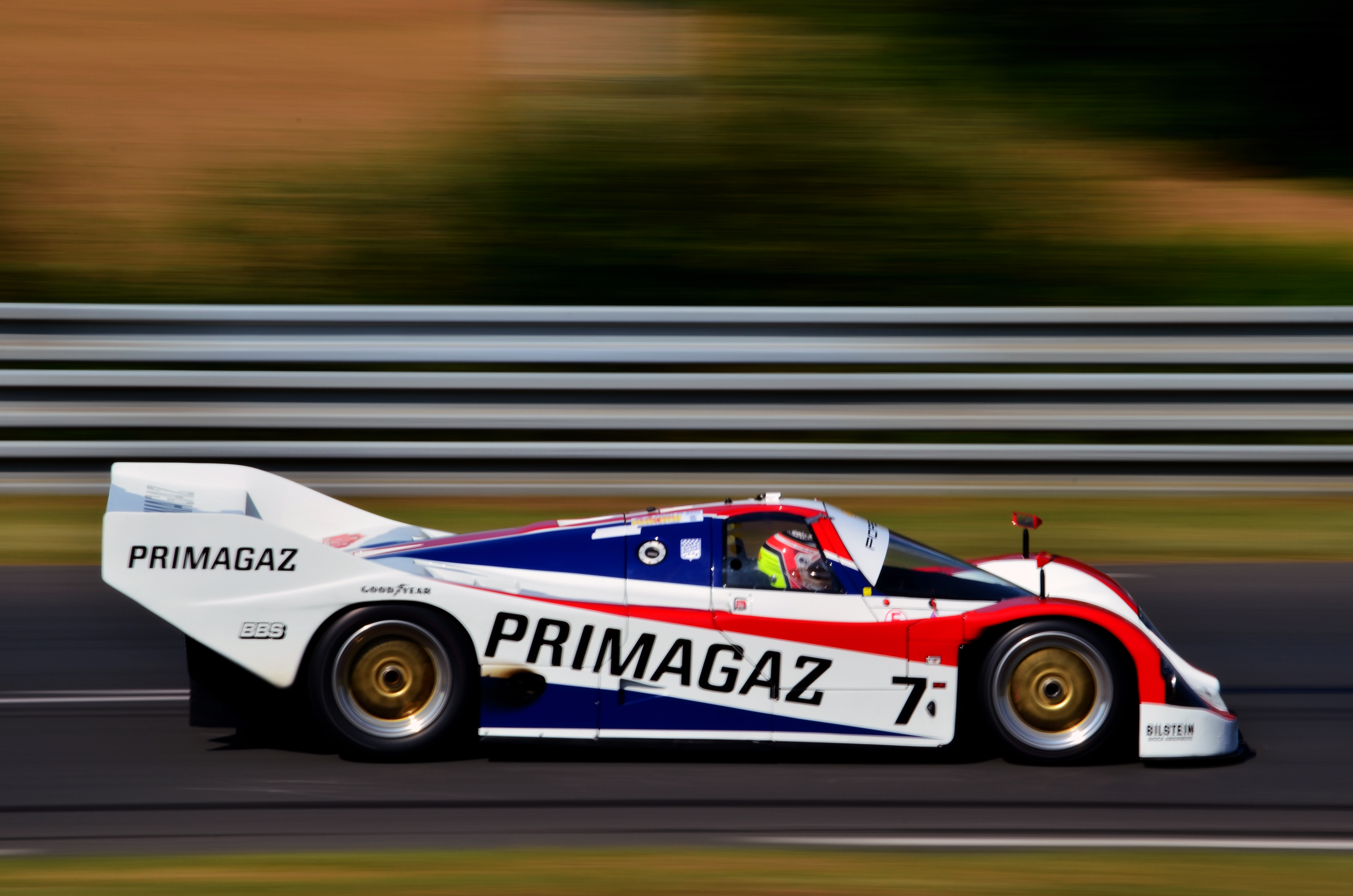 Porsche 962C Primagaz Compétition